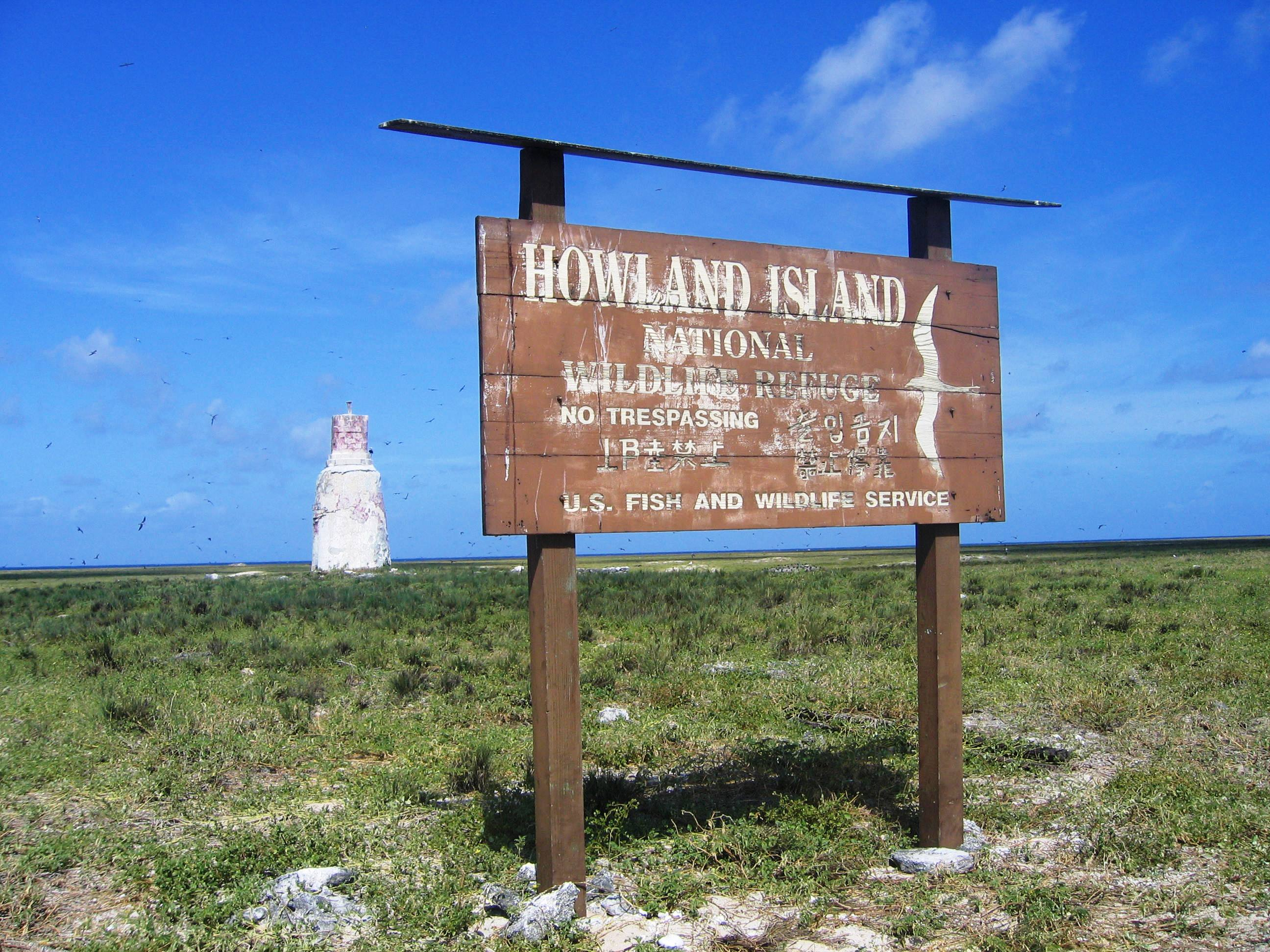 Howland Island, US Fish & Wildlife sign with daylight beacon "Earhart Light" in background